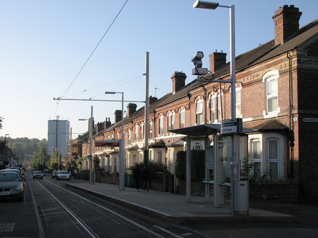 Noel Street: Beaconsfield Street tram stop Northbound trams run up Noel Street.